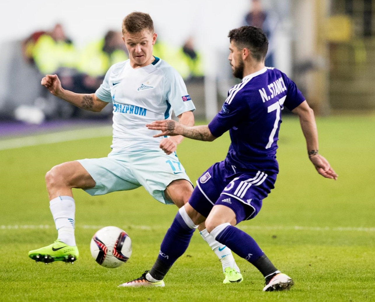 Nicolae Stanciu and Oleg Shatov on 17 February 2017.